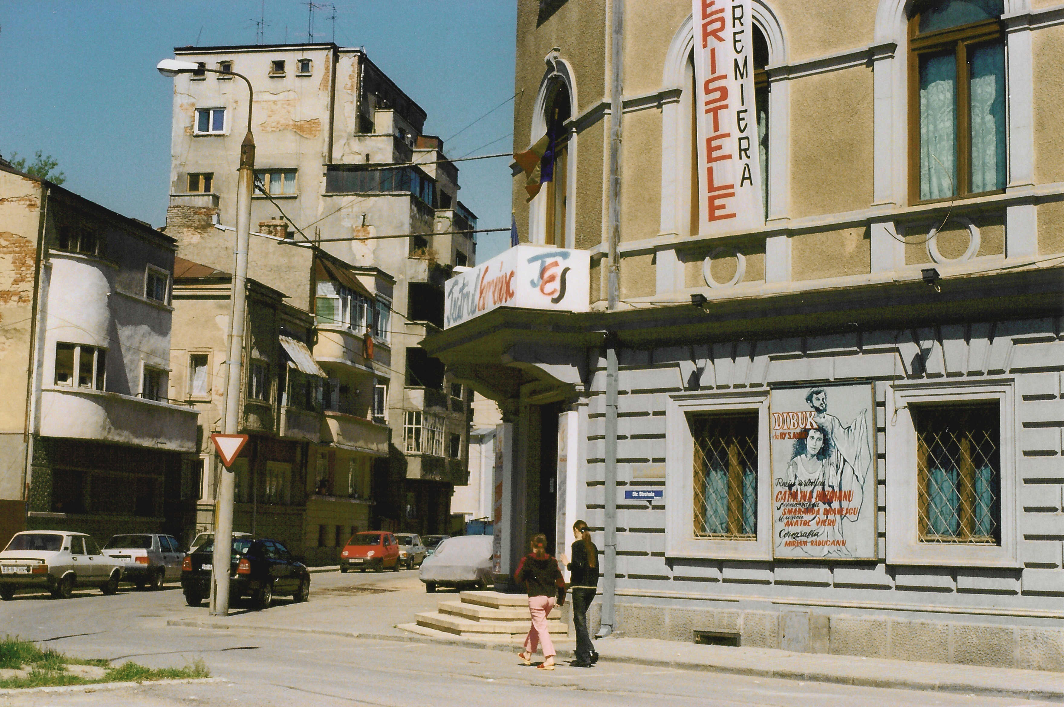 State Jewish Theater, Str. Iuliu Barash 15, Bucharest, Romania